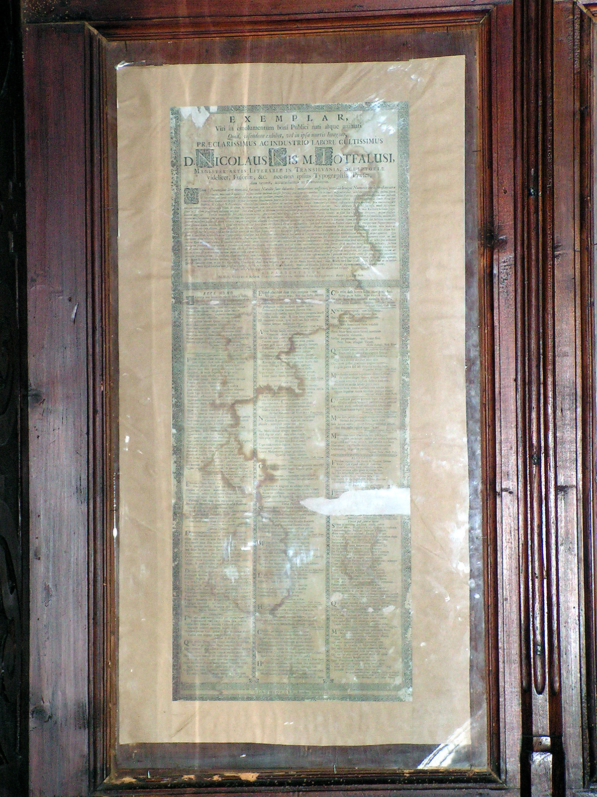 The mortuary card of Miklós Misztótfalusi Kis at the Reformed Church in Cluj